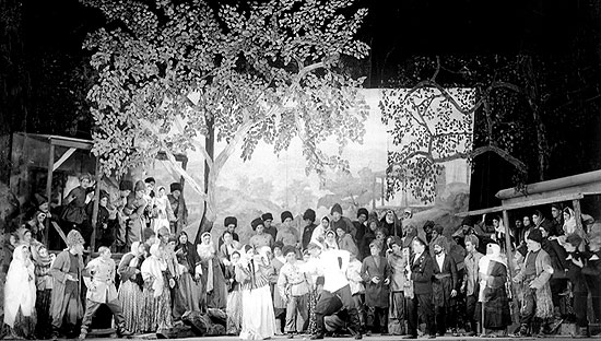 Scene from "In 1905". Russian Dramatic Theater.